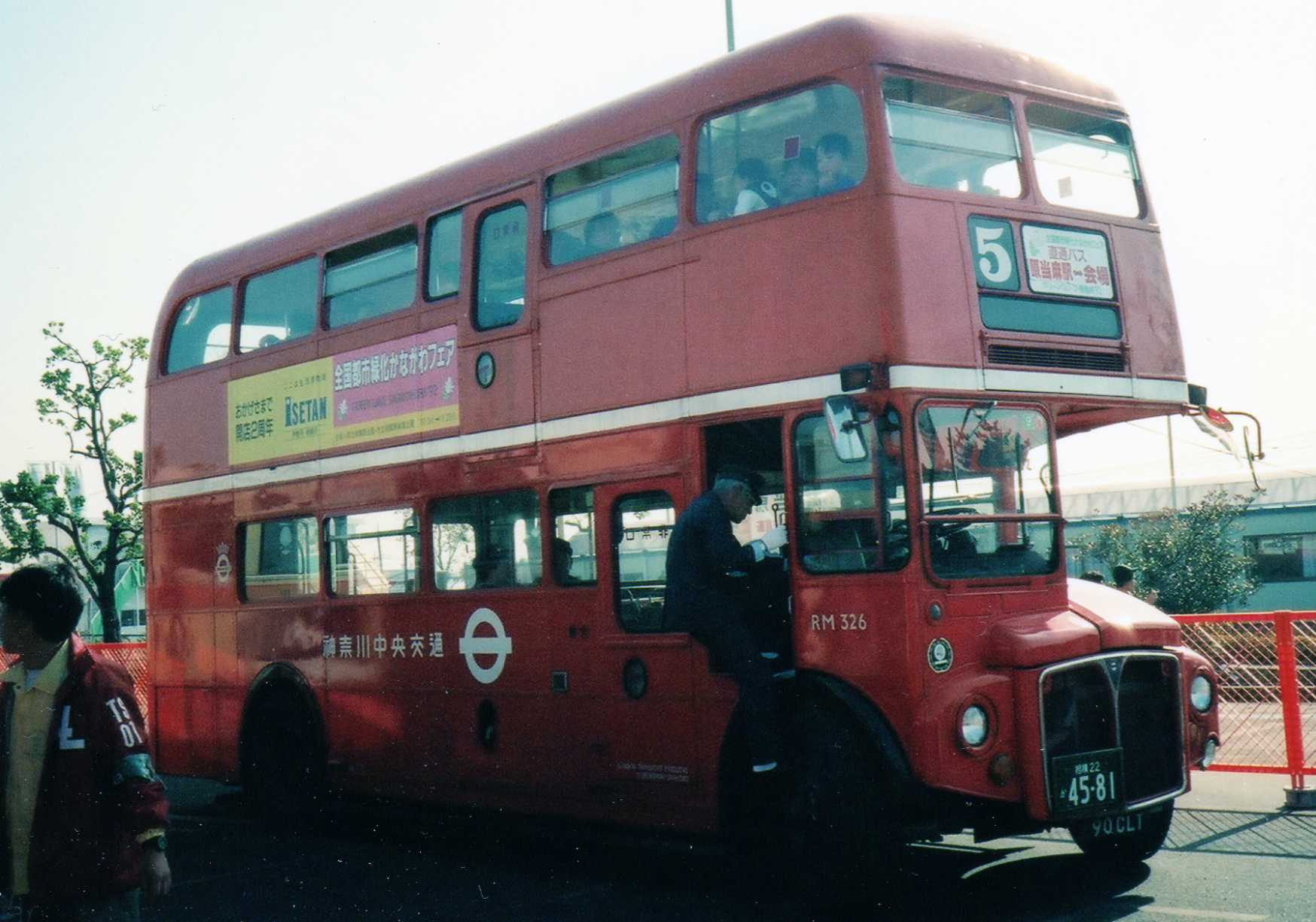 Kanachu Routemaster at Green Wave Sagamihara